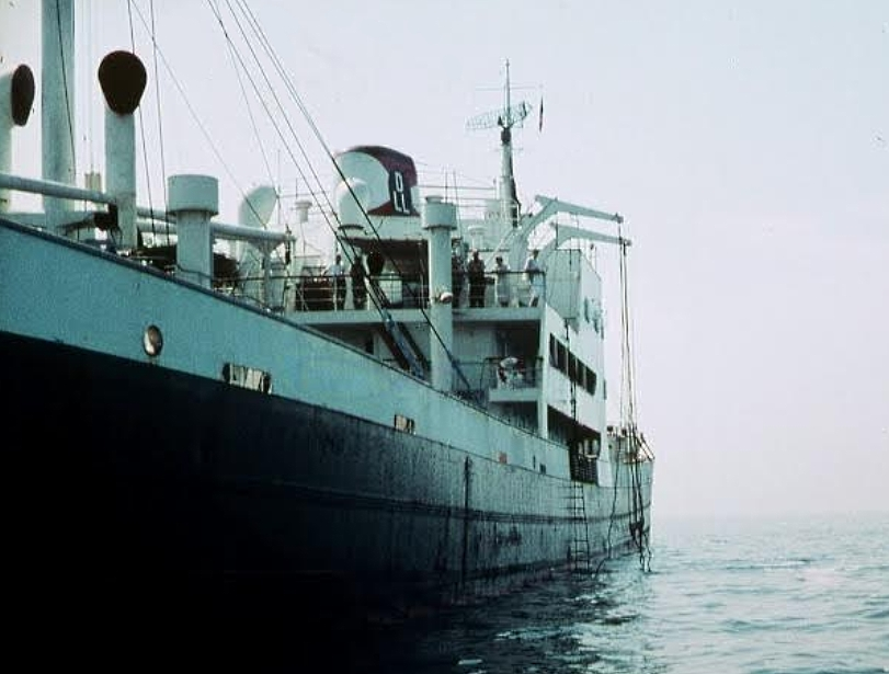 MS Ankara ex Babitonga with unfolded boat davits; clearly visible is the DLL funnel markings.